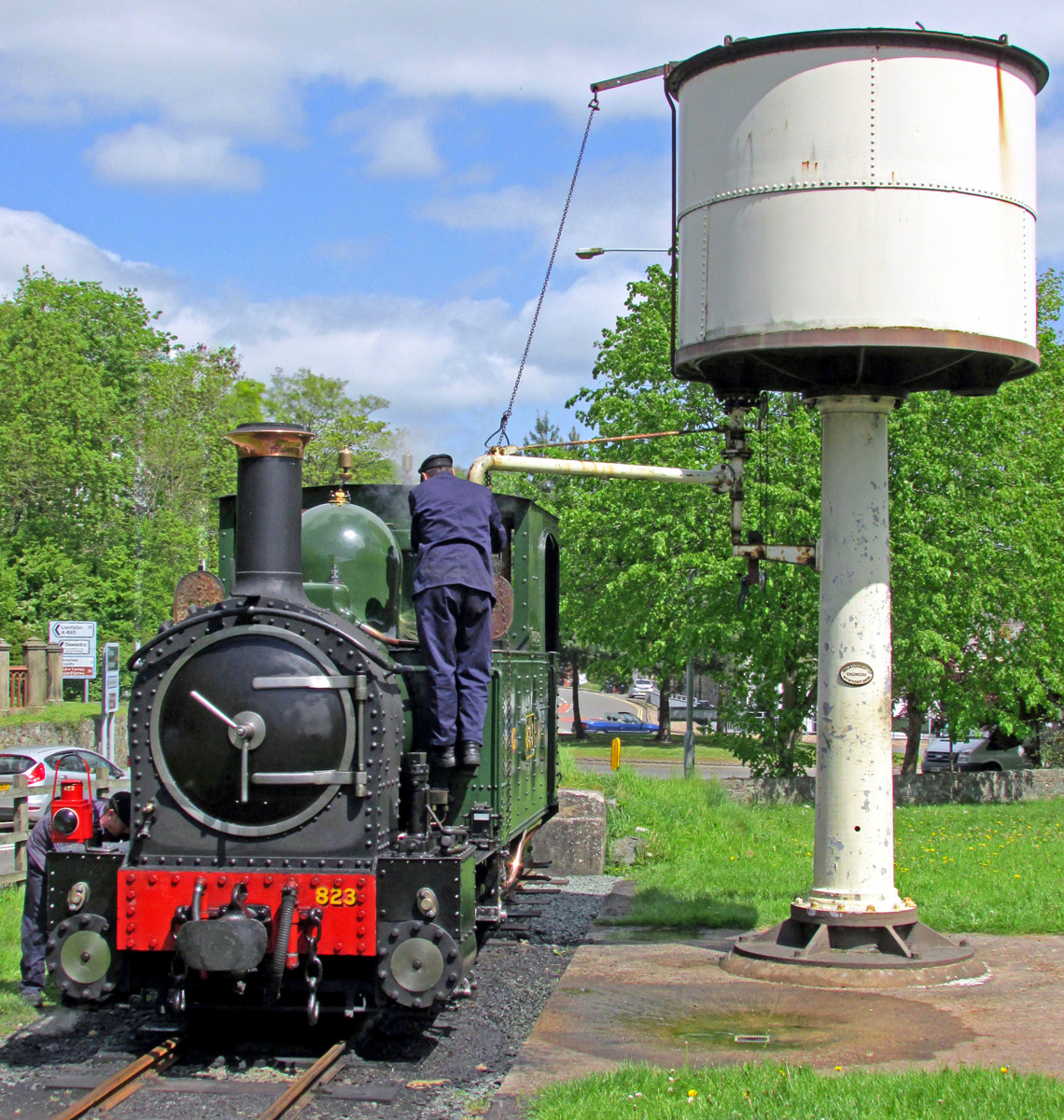 Welshpool Raven Square Station water tower with No.2 (823) Countess 0-6-0T taking water